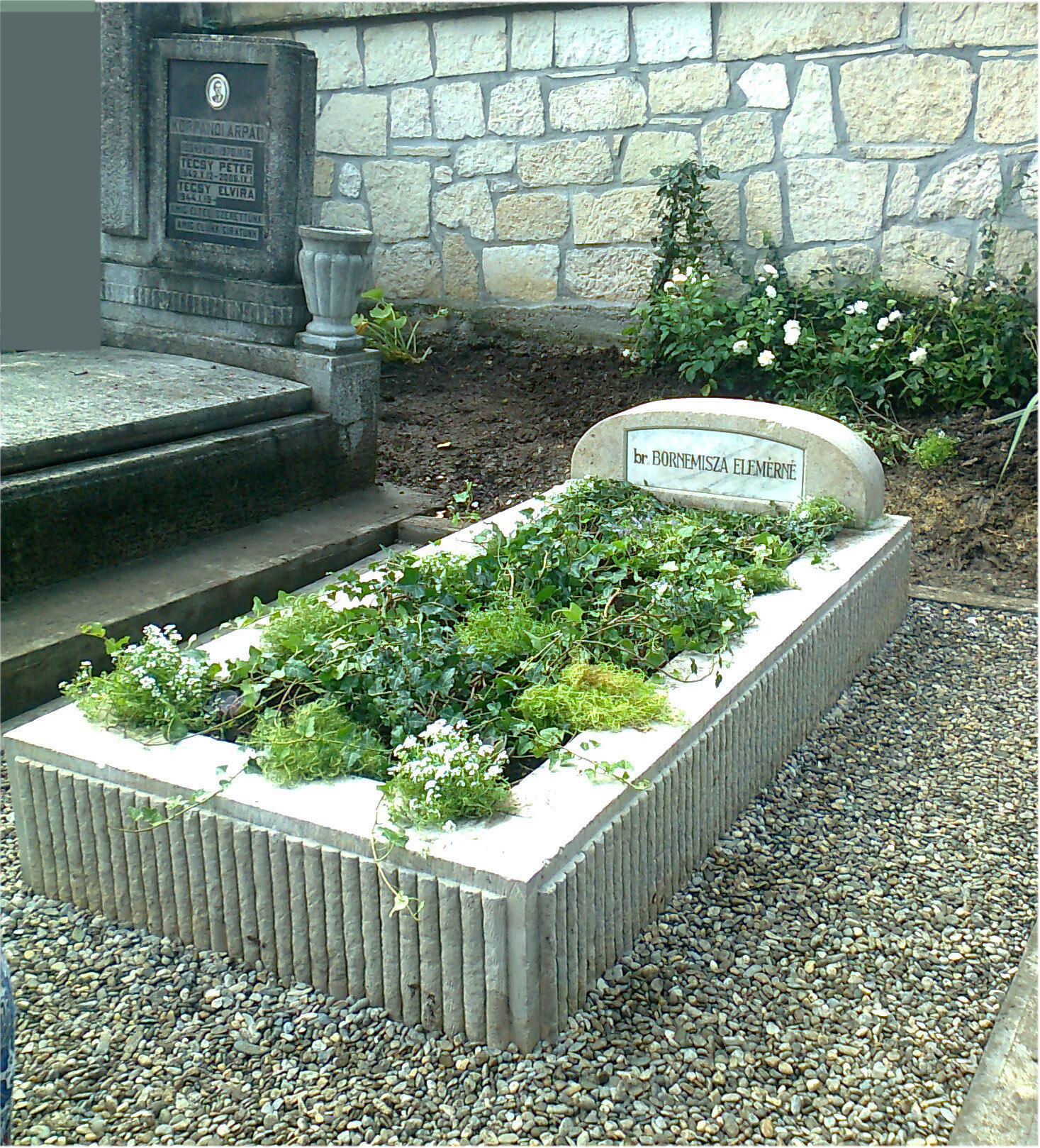 Tomb of br. Carola Szilvássy (Bornemissza Elemérné)